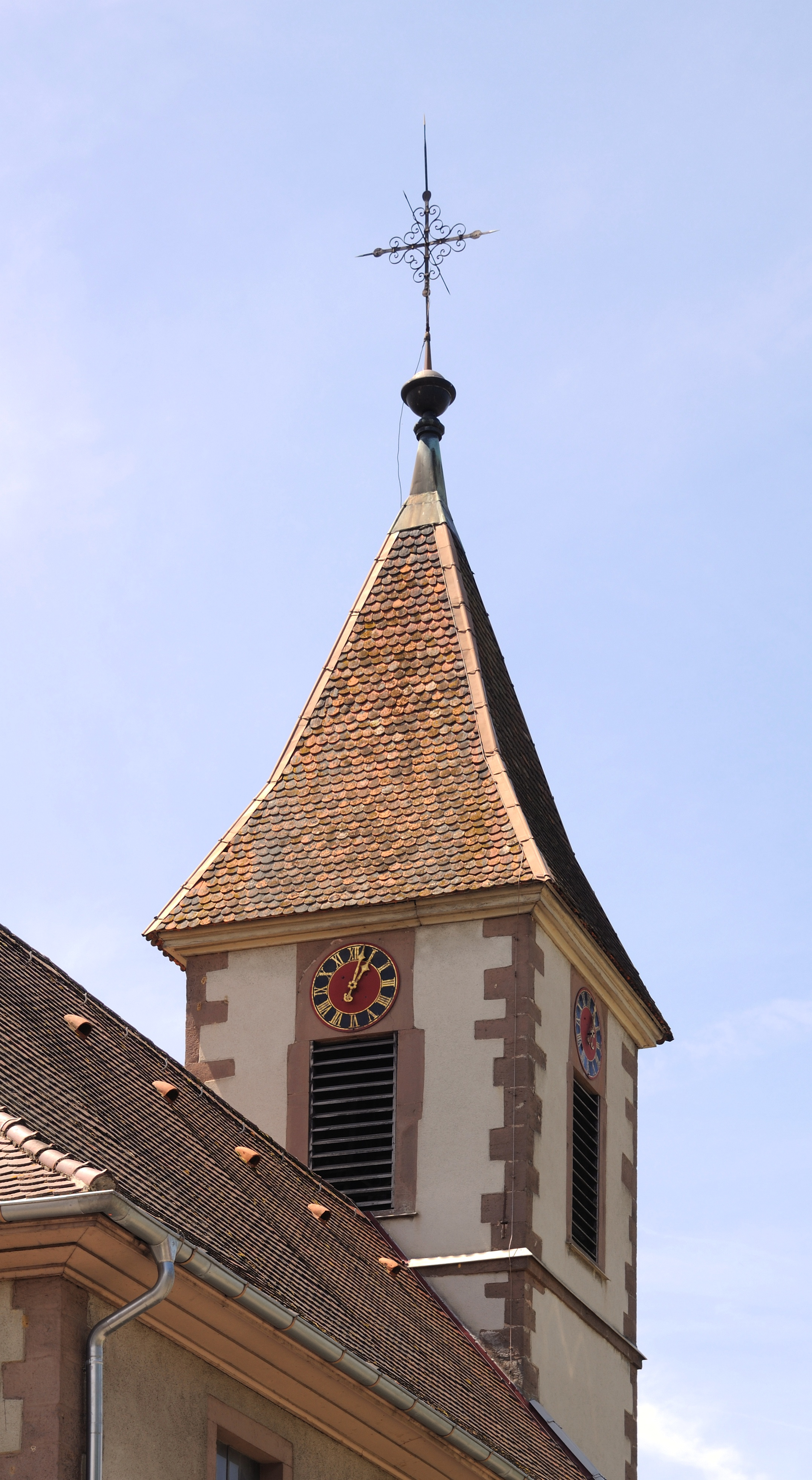 Bad Bellingen-Hertingen: Protestant Church